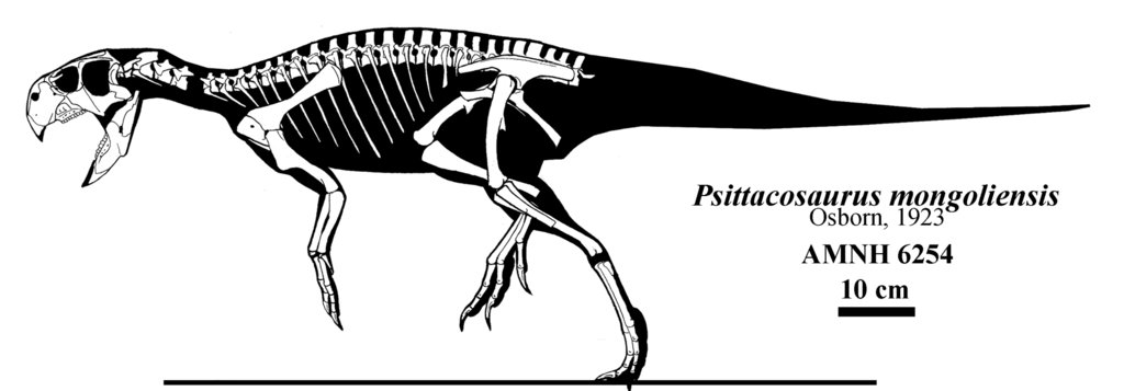 Skeletal reconstruction of Psittacosaurus mongoliensis.